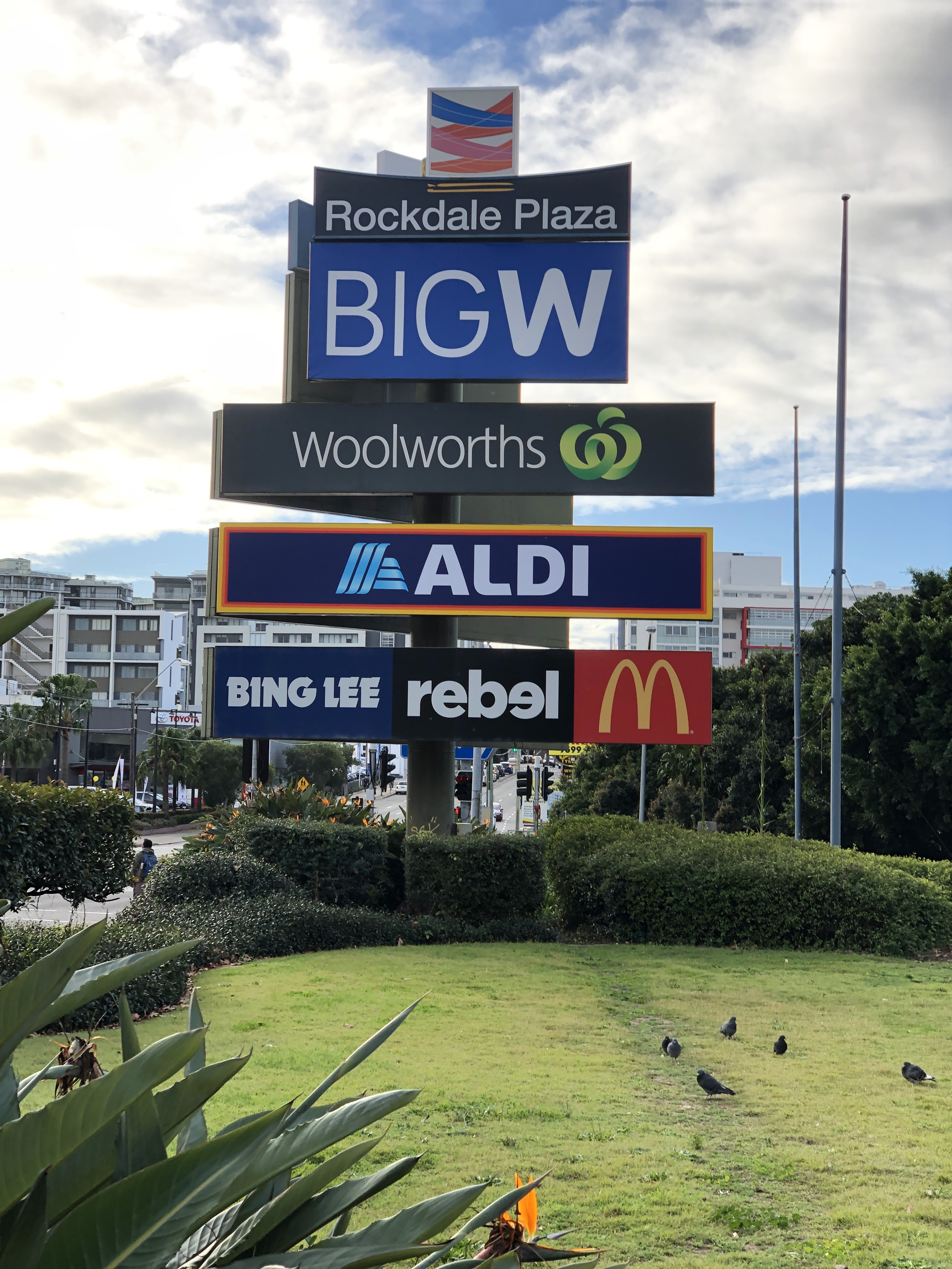 Rockdale plaza billboard sign by the Princes Highway